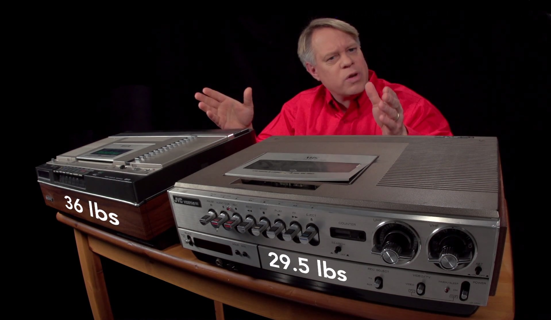 In 1976 Sony introduced the Betamax video cassette recorder. It catalyzed the "on demand" of today by allowing users to record television shows, and the machine ignited the first "new media" intellectual property battles. In only a decade this revolutionary machine disappeared, beaten by JVS's version of the cassette recorder. This video tells the story of why Betamax failed. This is one of three videos in a series on marketplace failures of technological objects.